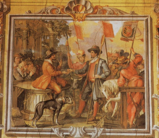 Fresco in Großer Wappensaal, Landhaus Klagenfurt, northern wall. Shown is the medieval ceremony of the inthronisation of the Duke of Carinthia at the Fürstenstein.